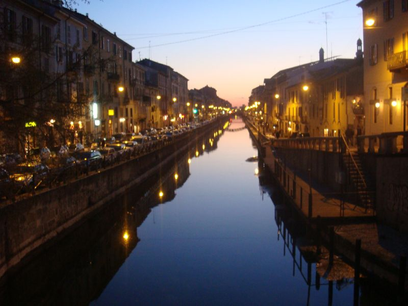 Naviglio Grande at dusk, taken on March 25, 2009 by Brina CRS